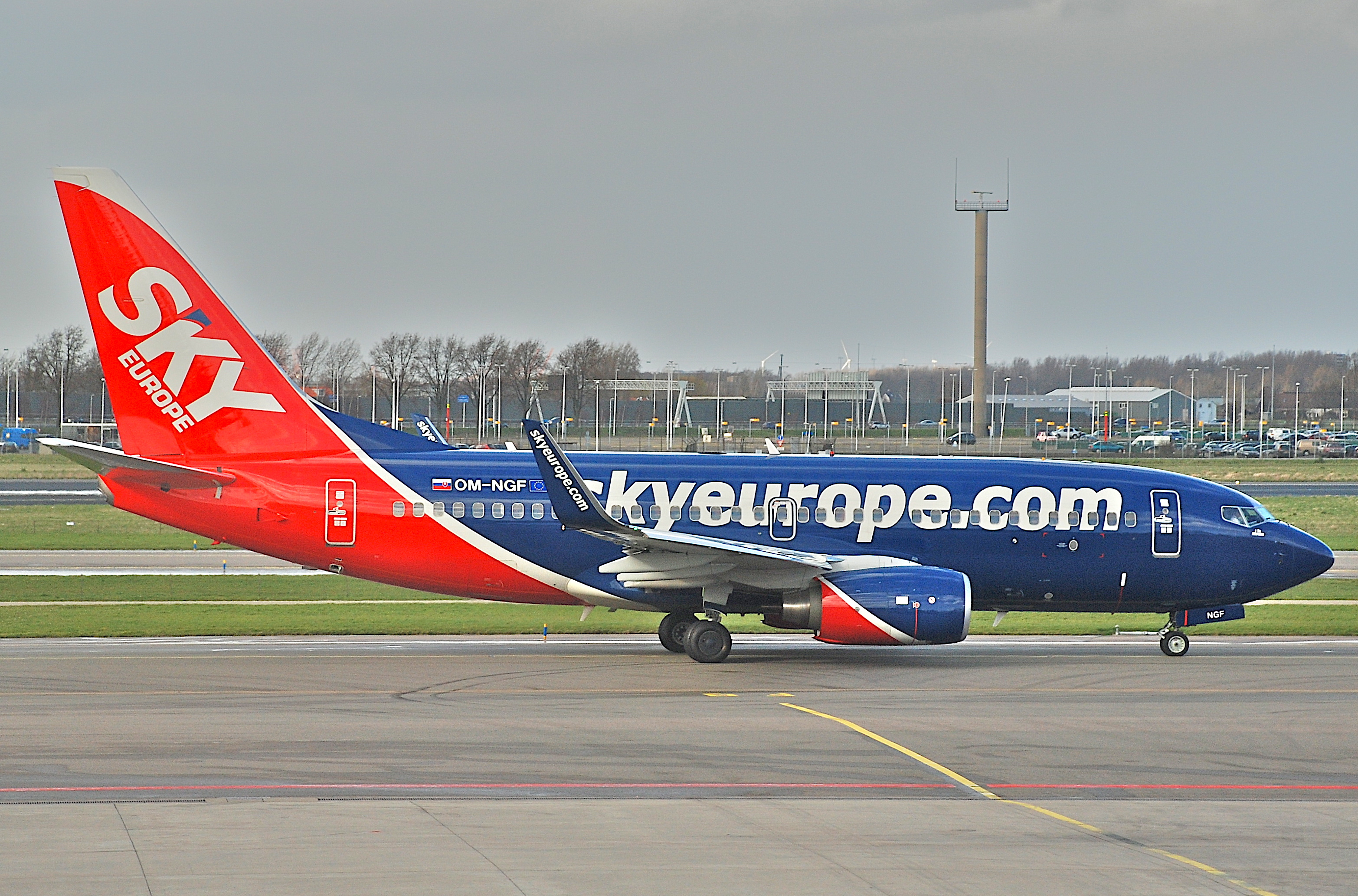 This Boeing 737-76N took its first flight on October 13, 2006...(c/n 32680/ 2089) 28/10/2006 SkyEurope Airlines OM-NGF stored 01/2009 25/07/2009 Aerolineas Argentinas LV-CAD